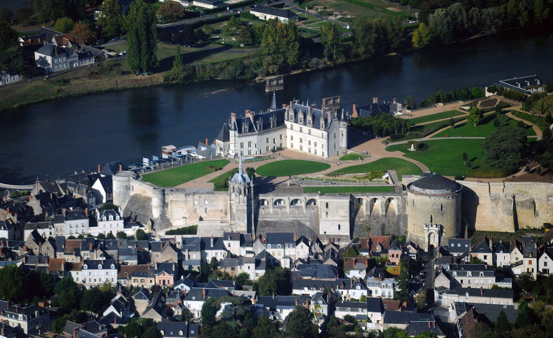 Aerial photograph of Amboise castle (Indre-et-Loire department, France). Nikon D60 f=160mm f/6.3 at 1/2500s ISO 400. Processed using Nikon ViewNX 1.3.0 and GIMP 2.6.6.